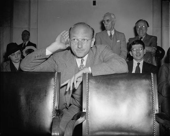 This is an slighty cropped image of Tennessee Valley Authority Director David E. Lilienthal listening to testimony before a committee of the United States Congress on May 25, 1938. The committee was investigating charges brought against the TVA by its former chairman, Arthur E. Morgan.